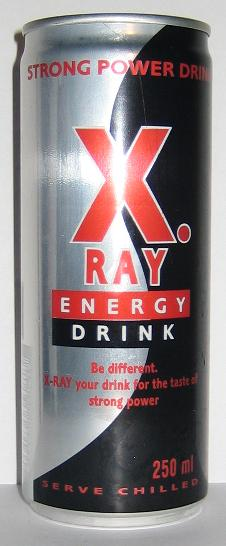 A picture of the Norwegian X. ray Energy Drink 250ml can.